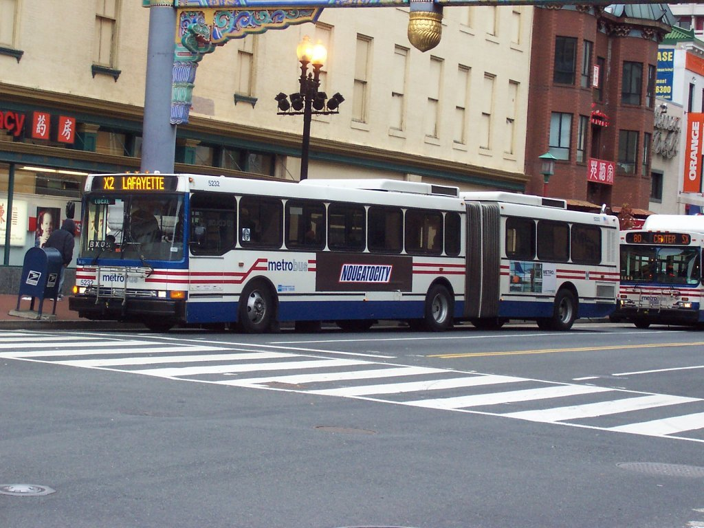 WMATA NABI 436 5232, in downtown Washington, DC.